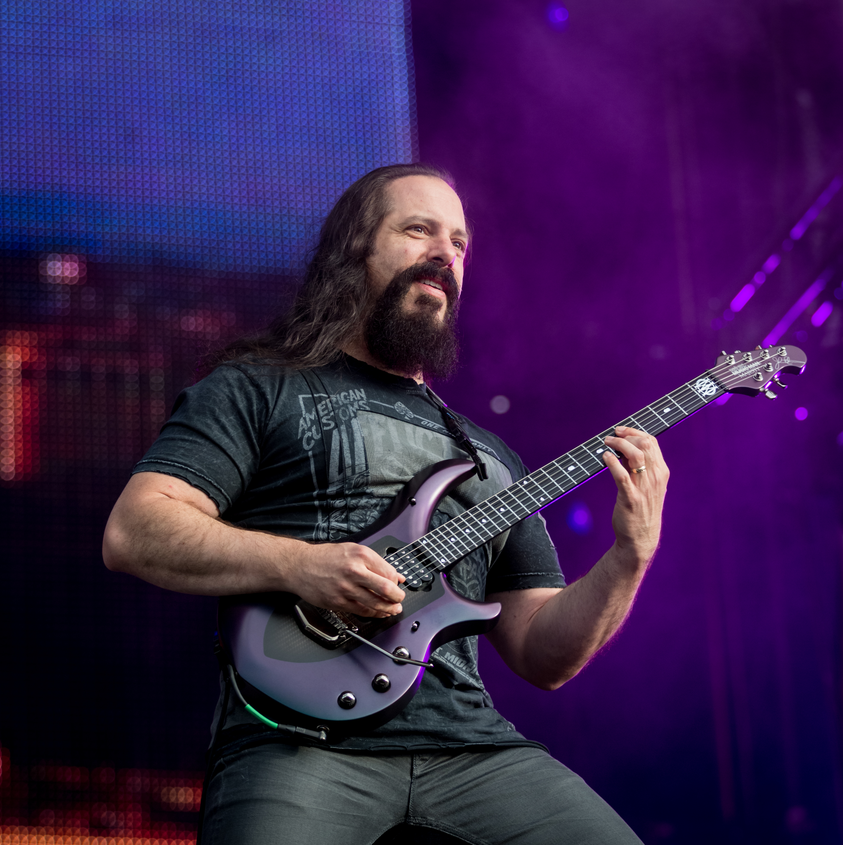 Dreamtheater - Wacken Open Air 2015